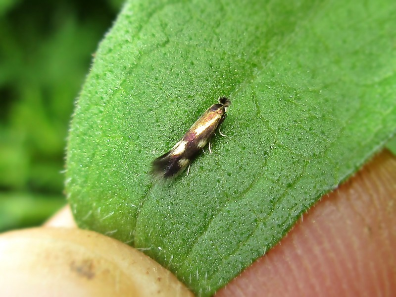 Bucculatrix nigricomella (Bucculatricidae sp.), Elst (Gld), the Netherlands